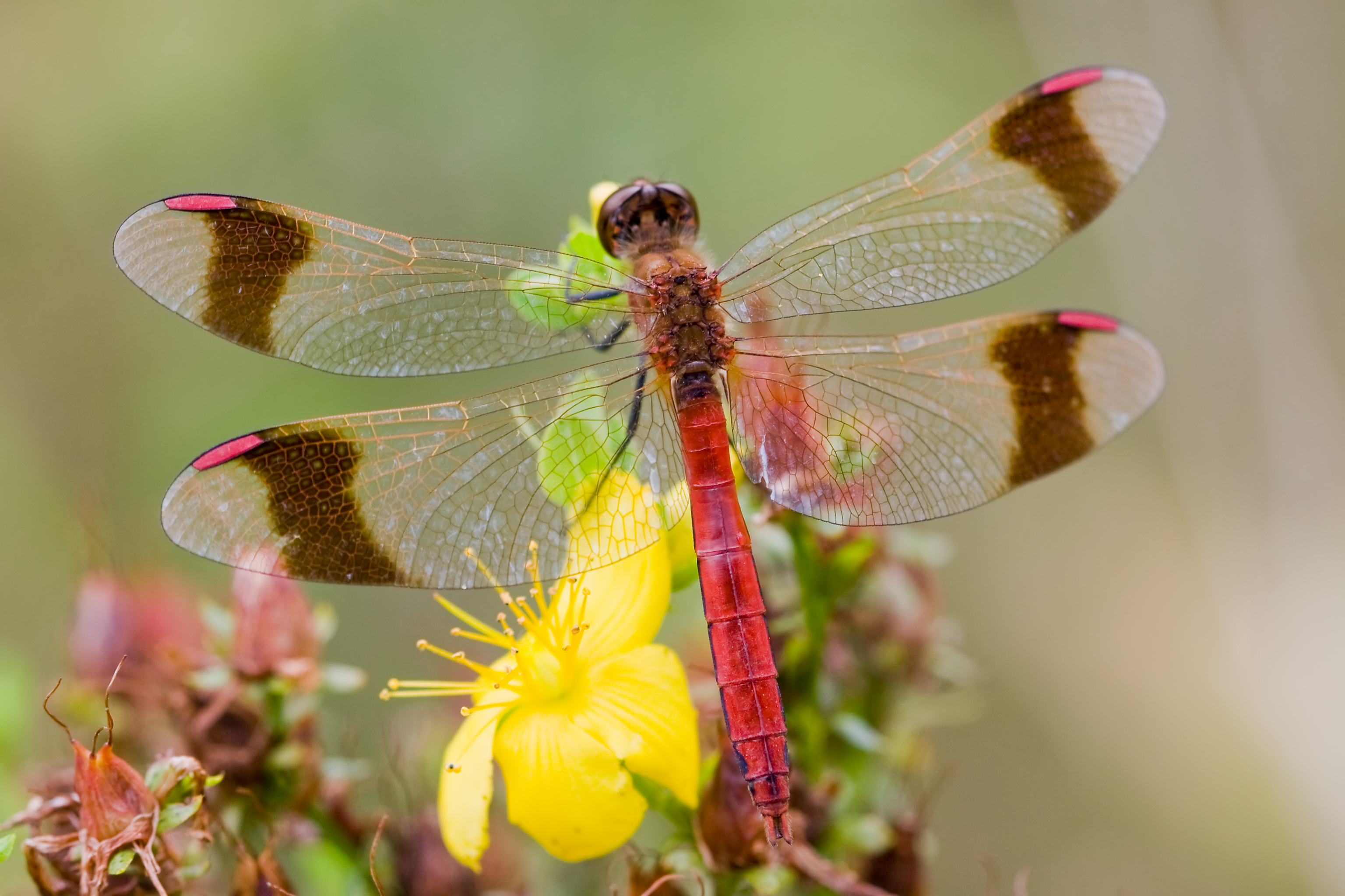 Male Banded Darter (Sympetrum pedemontanum) in Geesthacht, southern Schleswig-Holstein, Germany.